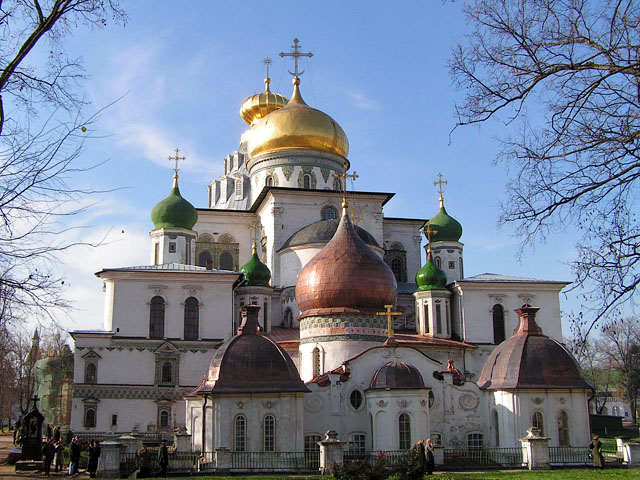 New Jerusalem Monastery